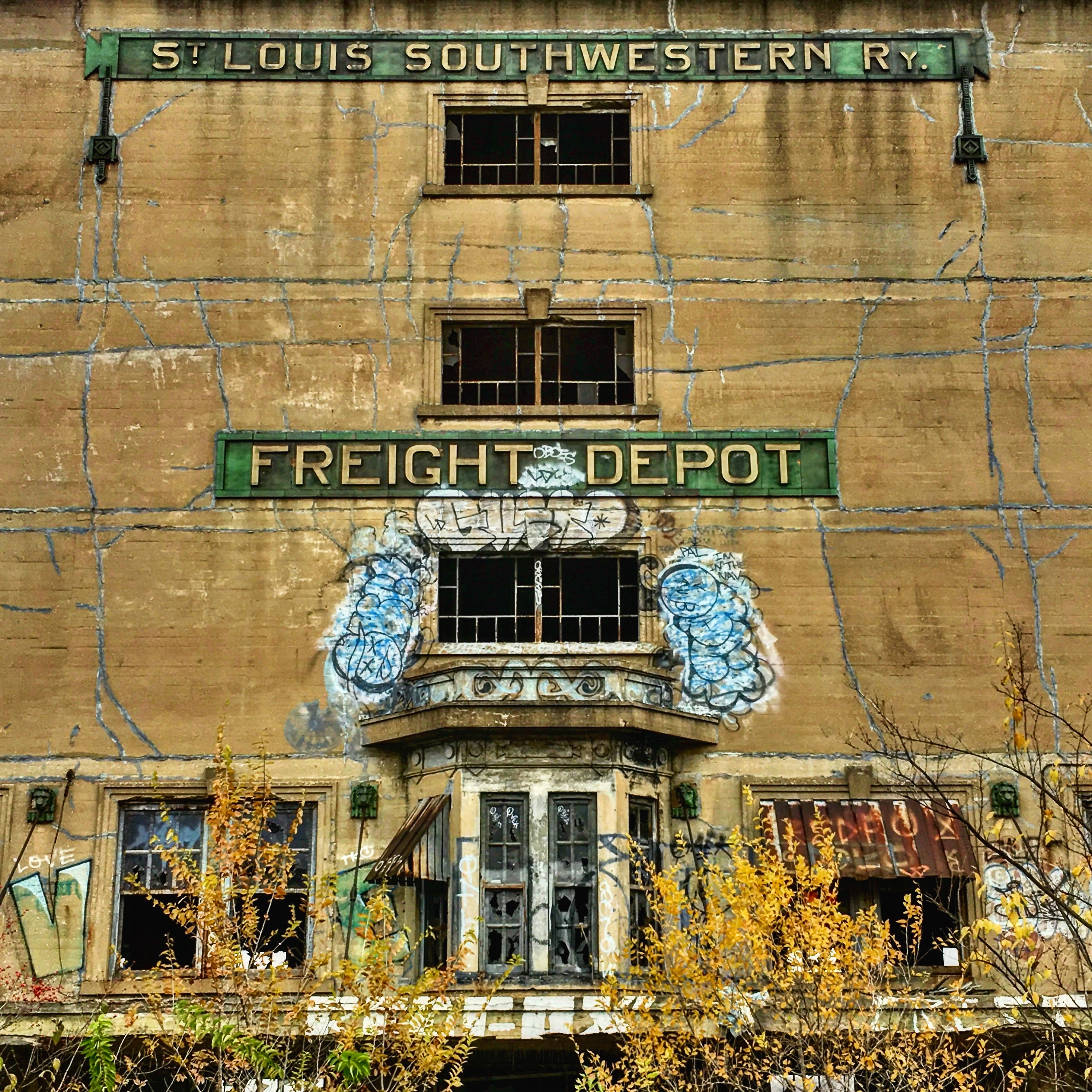 Cotton Belt Freight Depot in St.Louis, MO.